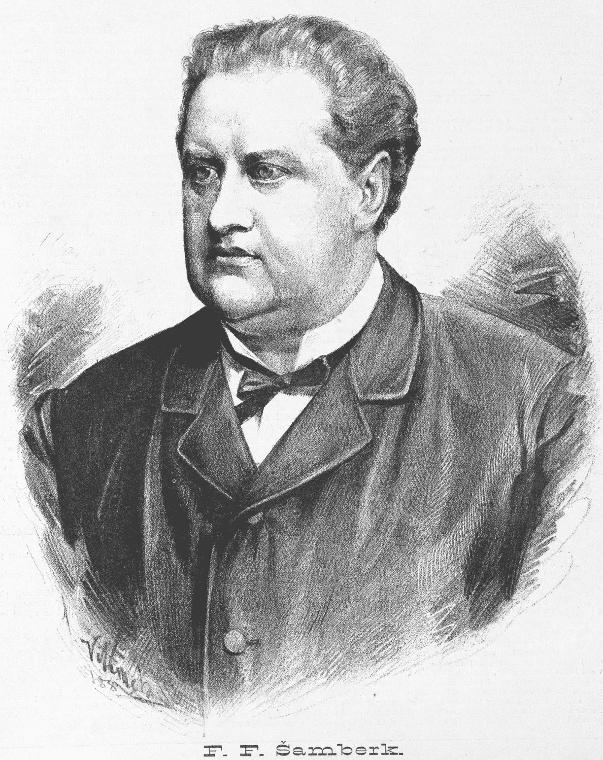 Portrait of František Ferdinand Šamberk, Czech actor and playwright